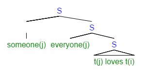 this is a syntactic tree of the sentence, everyone loves someone.